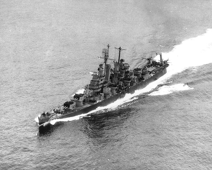 The U.S. Navy light cruiser USS Vincennes (CL-64) steaming in San Francisco Bay, California (USA), on 29 August 1945. She is painted in Camouflage Measure 22.